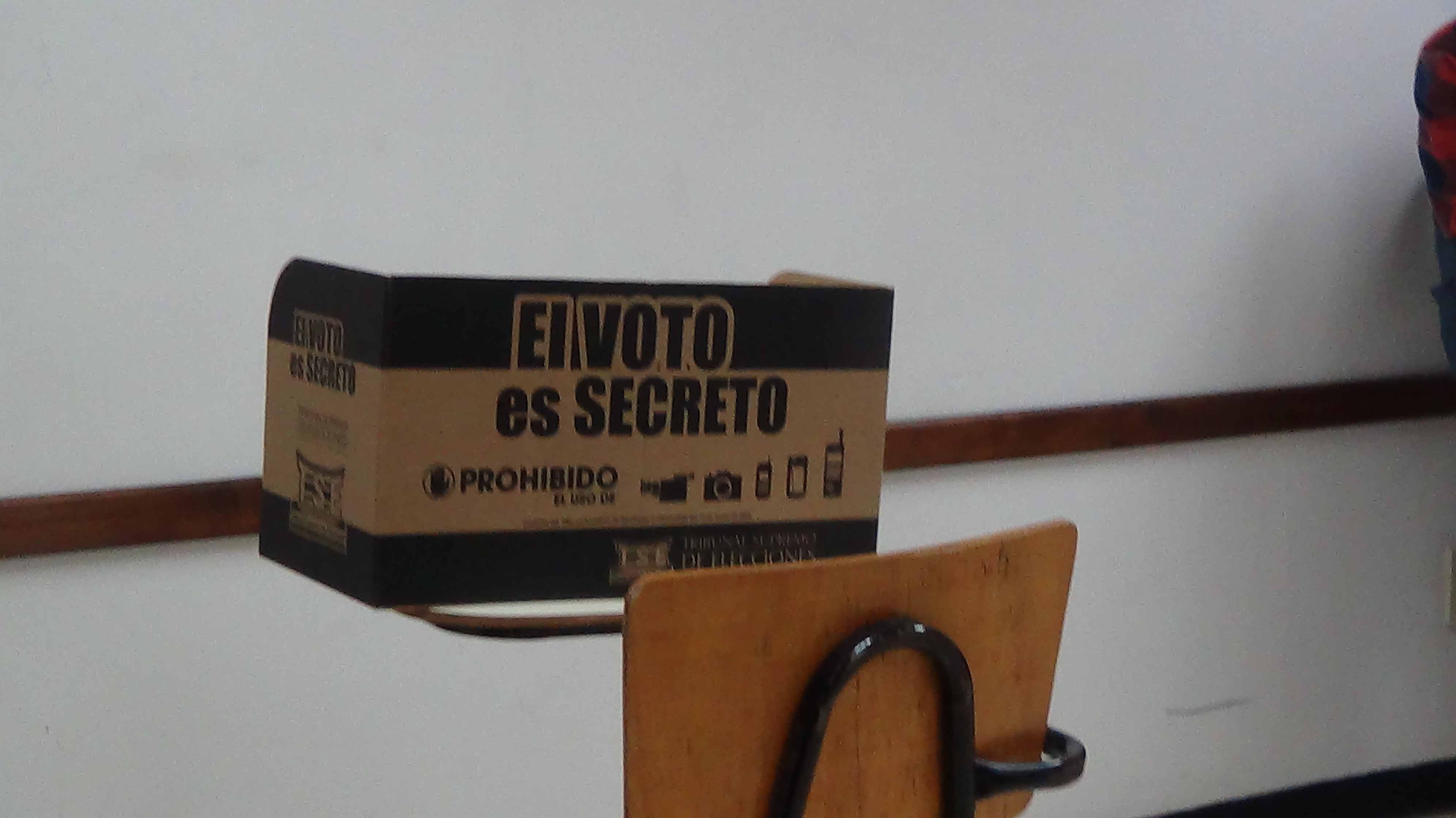 Urna de votación